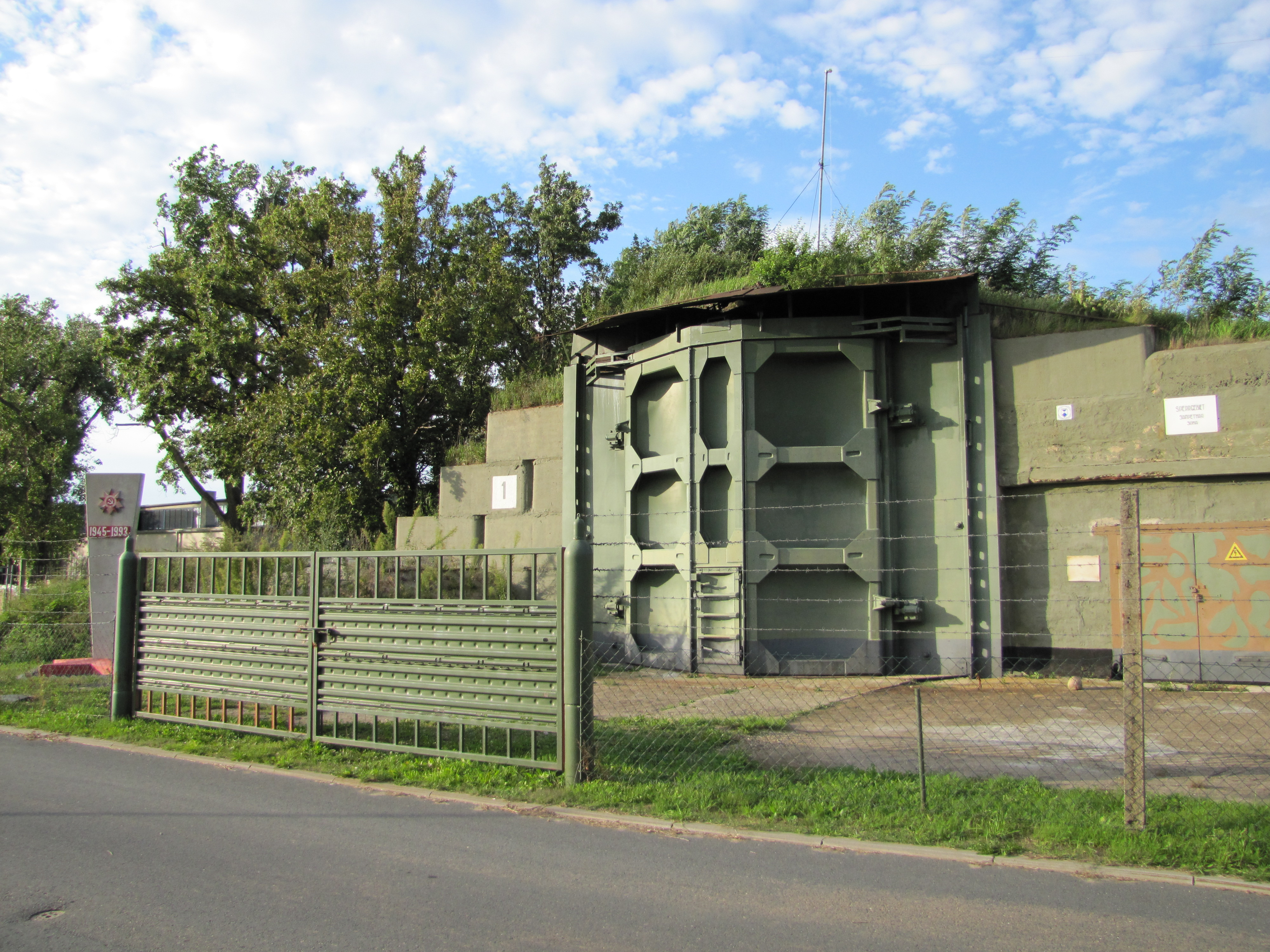 Group of the Soviet Forces in Germany (GSFG) 1945-1994; sites and location to sore or maintain nuclear ammunition, here: Special Weapons Depots (SWD) Special Weapons Depot Großenhain Bunker: Typ Granit, Nr. 1.